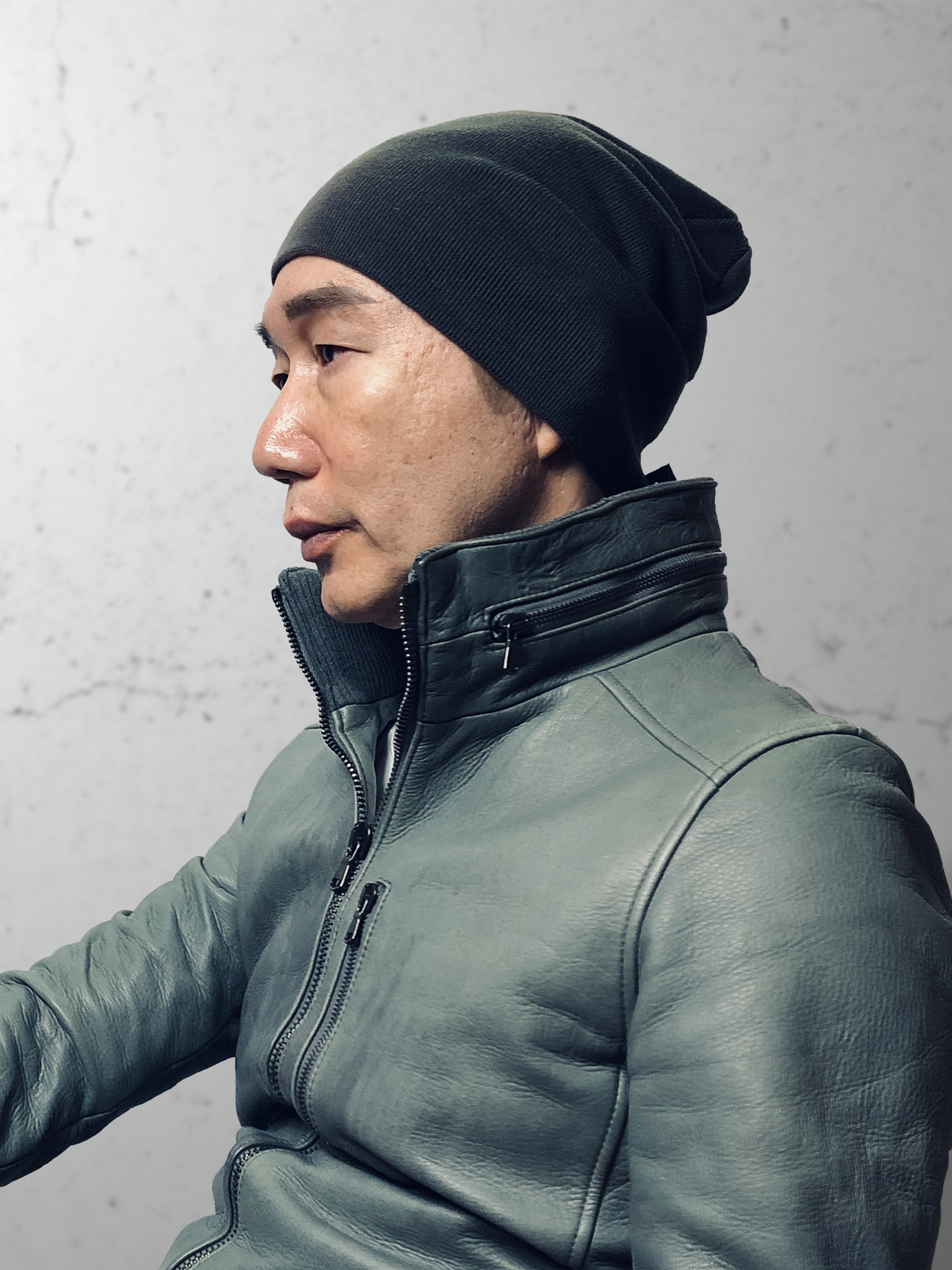 Portrait of Callas Cenquei